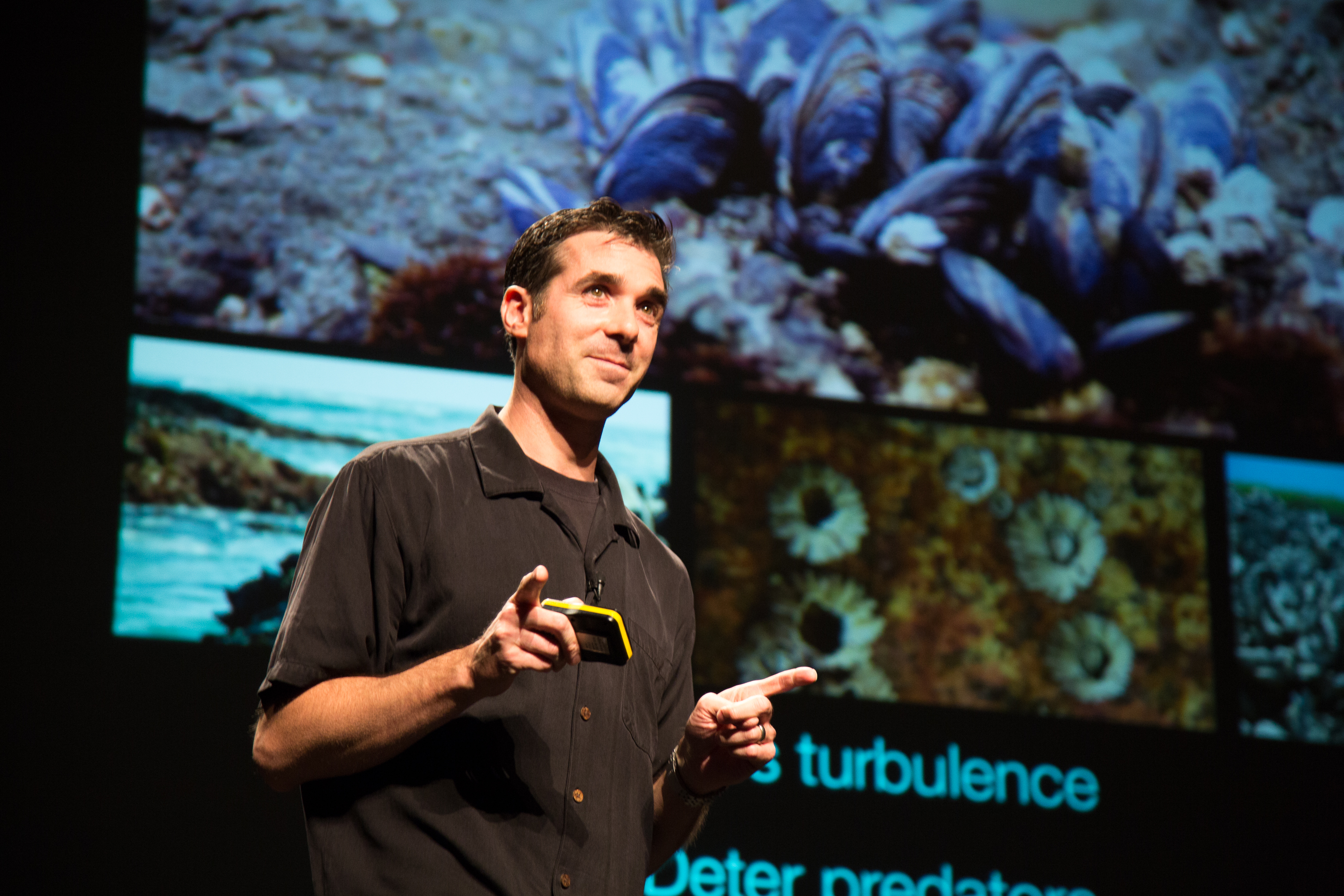 Jonathan Wilker speaking at Poptech